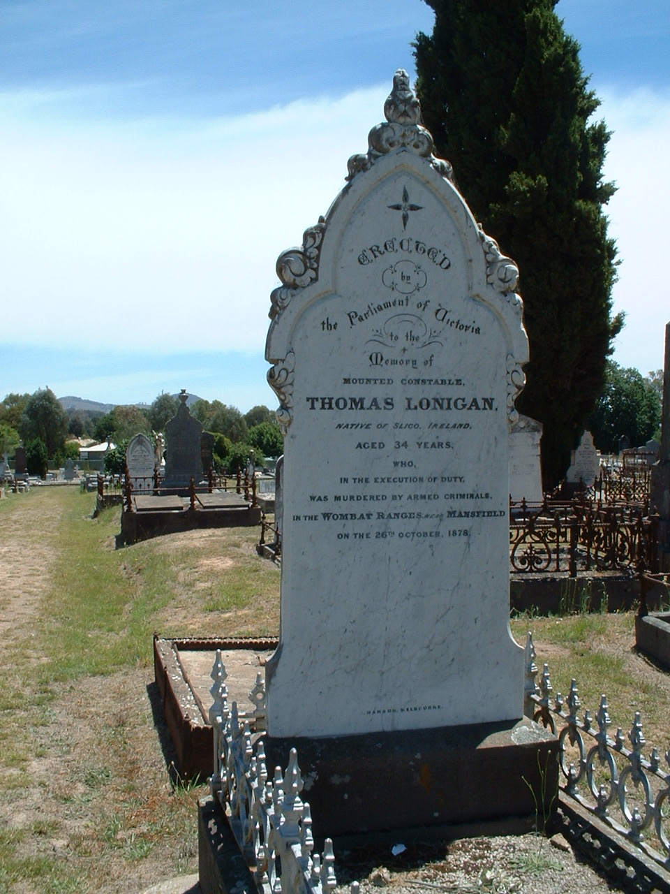 The grave of Police Constable Thomas Lonigan at Mansfield, Victoria, Australia. He was one of three policemen murdered by the bushranger Ned Kelly at Stringybark Creek in 1878.